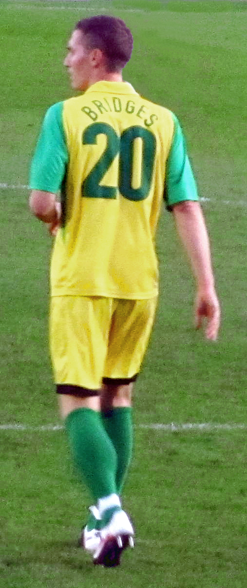 David Bridges